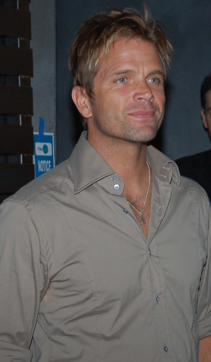 David Chokachi at a fundraiser for Drop in the Bucket.